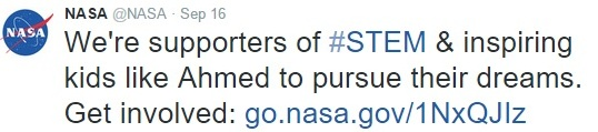 NASA tweet that reads "We're supporters of #STEM & inspiring kids like Ahmed to pursue their dreams. Get involved